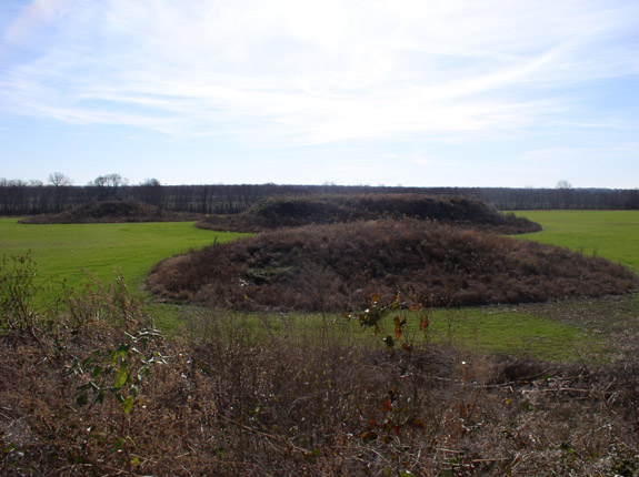 An image of the Kincaid Site in Massac Co. Illinois.